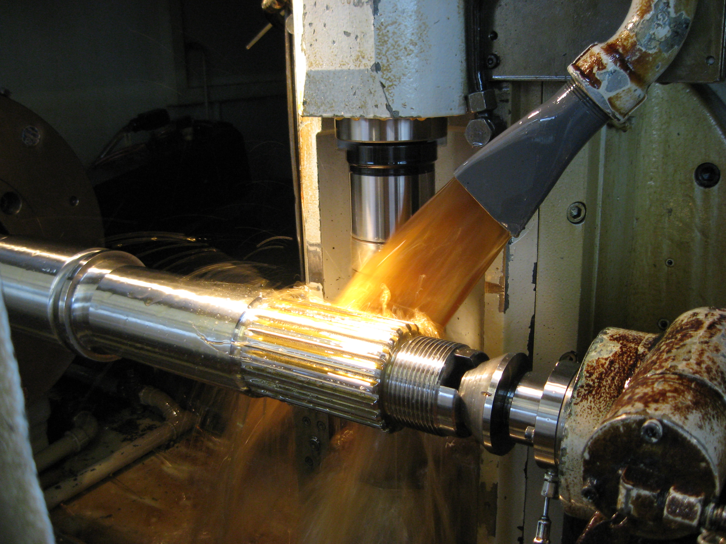 Milling of a straight sided spline profile